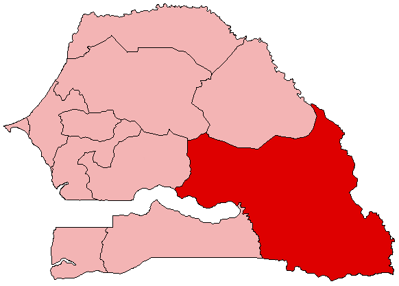 Map of Tambacounda region, Senegal.